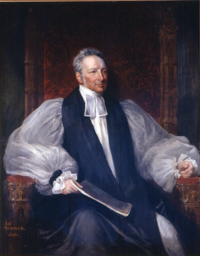 John Bird Sumner (1780-1862), Archbishop of Canterbury